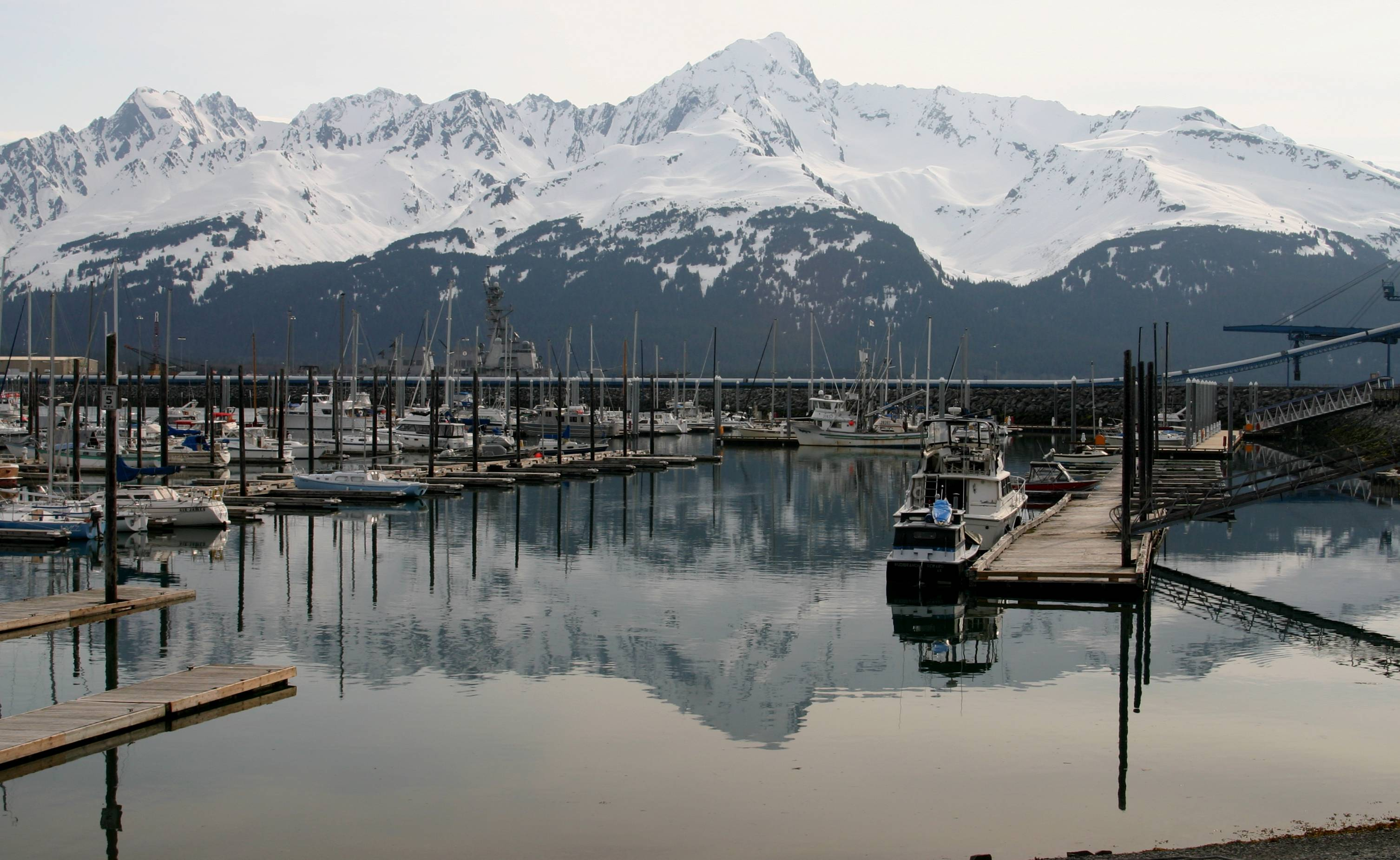 Taken on a visit to Seward, Alaska in May 2008.